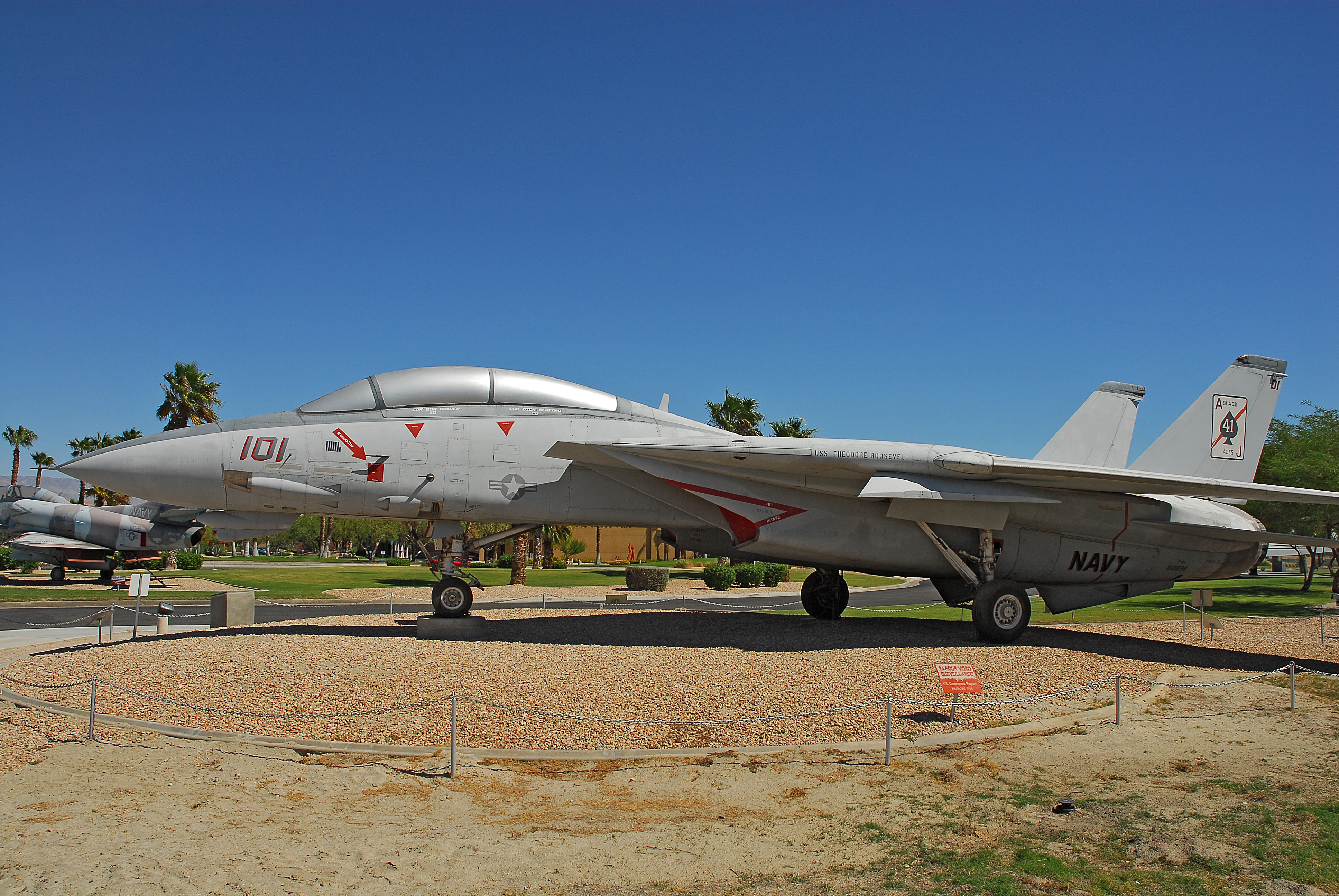 A Grumman F-14A Tomcat (BuNo 160898) at the Palm Springs Air Museum, Palm Springs, California (USA).